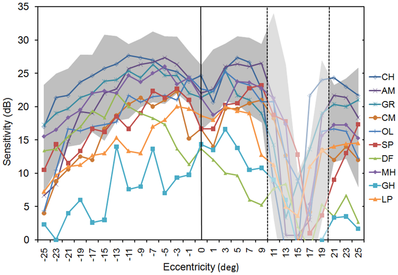 Data from individual amblyopic eyes compared with the range of sensitivities found in the controls' non-dominant eyes (grey region). ‘Sensitivity’ (y-axis) refers to the ability to detect the blue stimulus against the yellow background. Sensitivity is measured in decibels (dB) and, consistent with standard, white-on-white perimetry, a higher sensitivity indicates better performance. Error bars represent ±1 standard deviation of the mean. All left eyes were mirrored horizontally to allow comparison with the right eyes across the groups. The pale area between the vertical dotted lines (eccentricities +10 to +20 deg) corresponds to the region of the visual fields affected by the physiological blind spot for each participant.